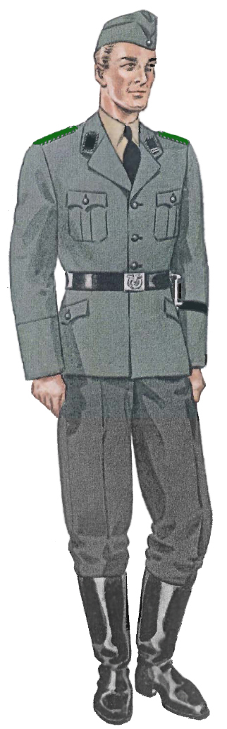 Derivitive of File:Grey SS uniform.jpg showing the Gestapo field uniform with police colors.